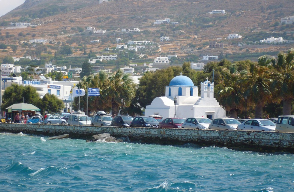 The Paros seefront in Greece.